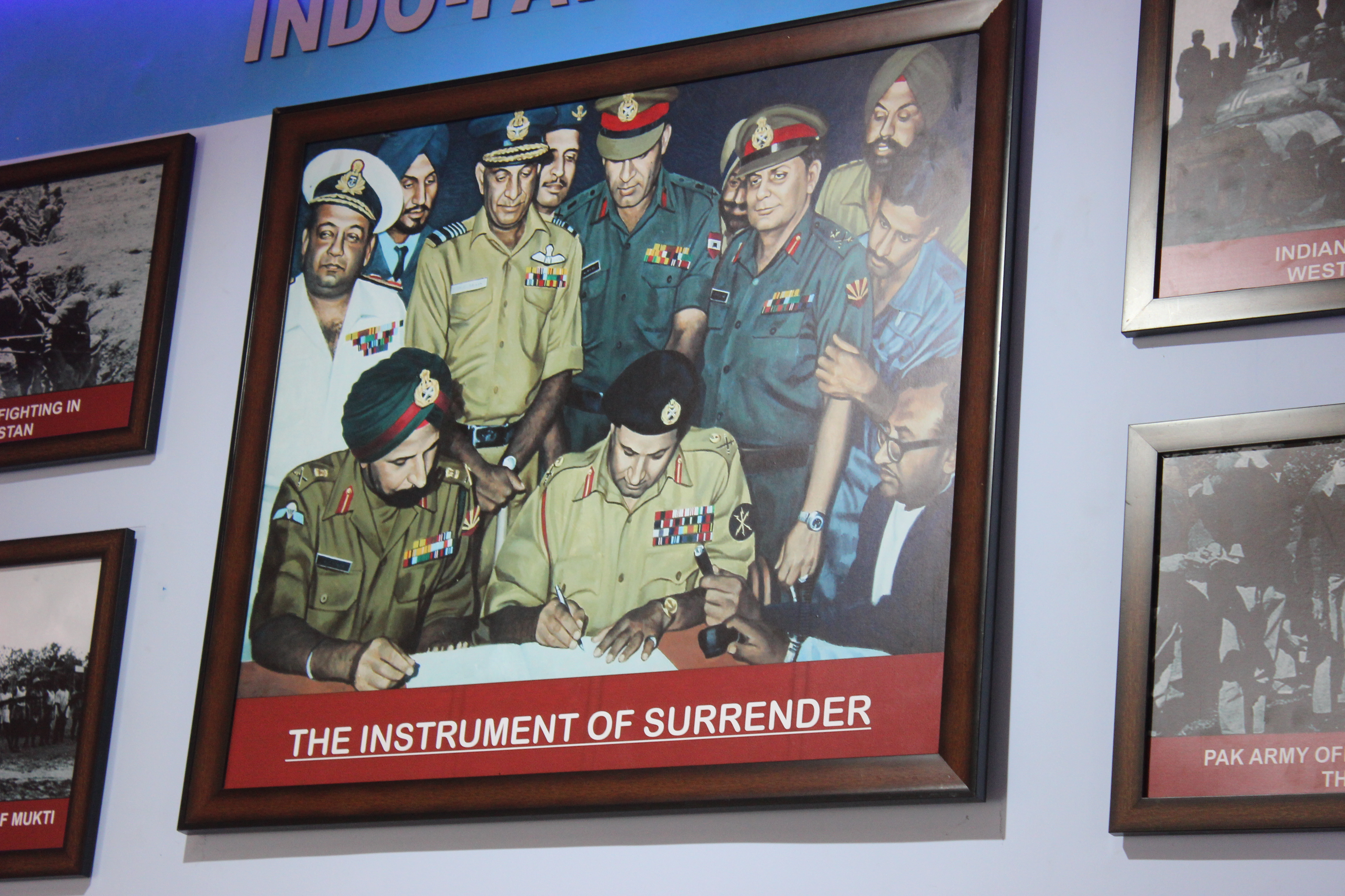 A museum with antique weapons, a park with war trophies, a rock climbing facility for adventure seekers, a small restaurant for foodies and a souvenir shop for those who wish to carry a remembrance from "yodhasthal" Indian Army at Bhopal